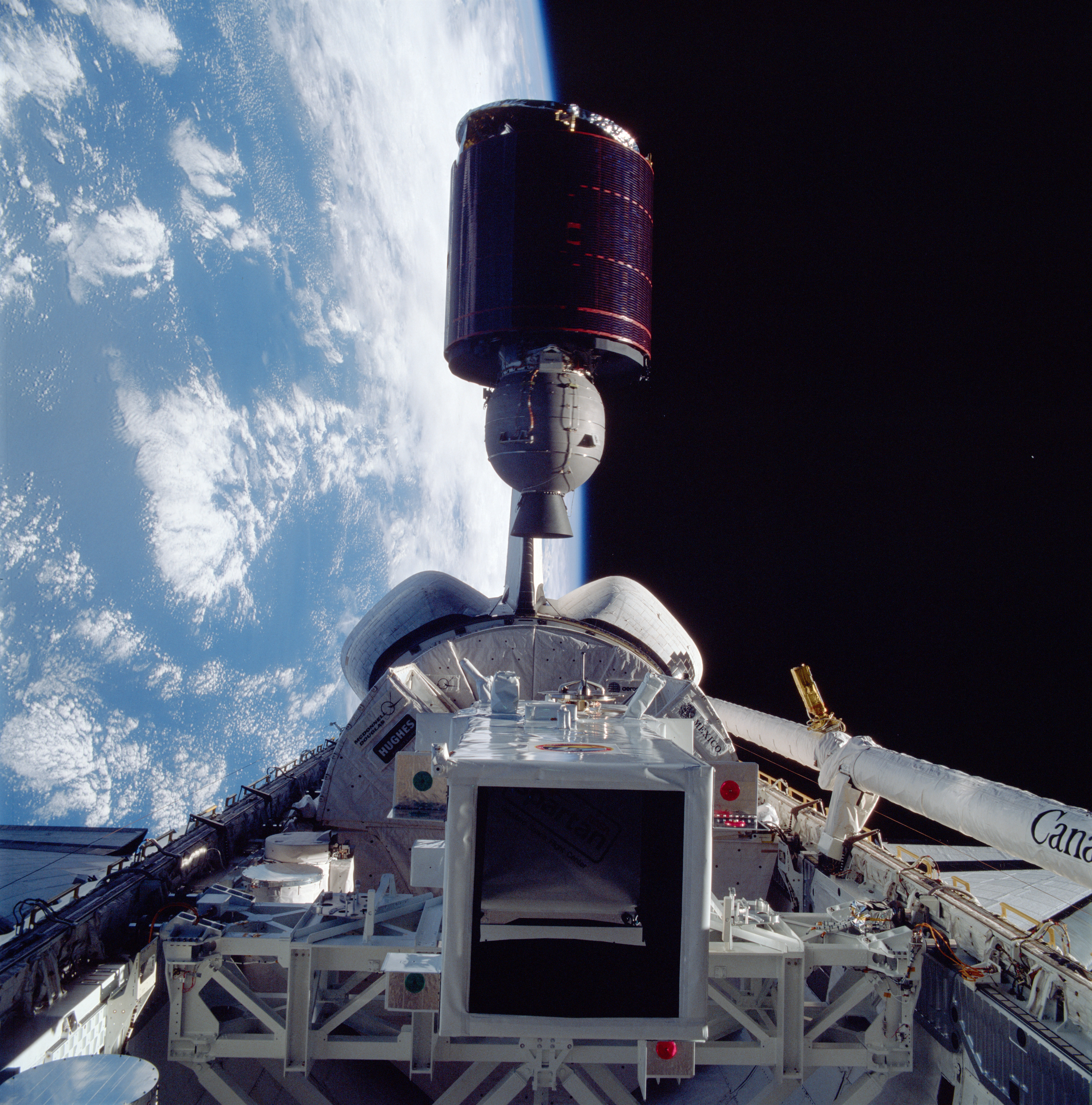 Mexico's Morelos satellite deploying from Discovery's payload bay. Cloudy Earth's surface can be seen to the left of the frame.